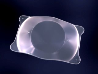 Visian Implantable Collamer Lens (ICL) Model